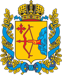 Vyatka gubernia (Russian empire), coat of arms